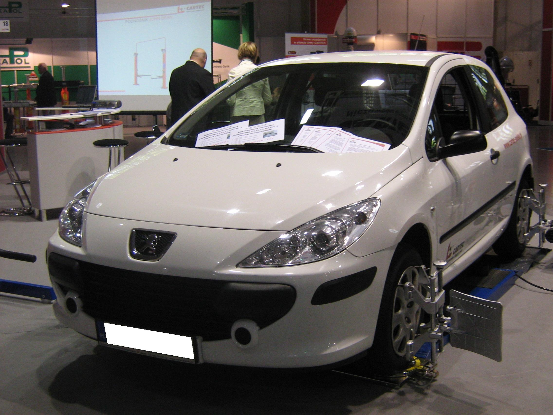 Peugeot 307 3D Facelift front - TTM 2009 in Poznan.